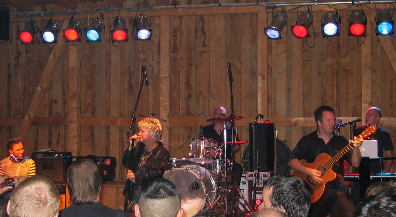 Anne Clark, concert on July 28, 2008 in Dortmund, Germany